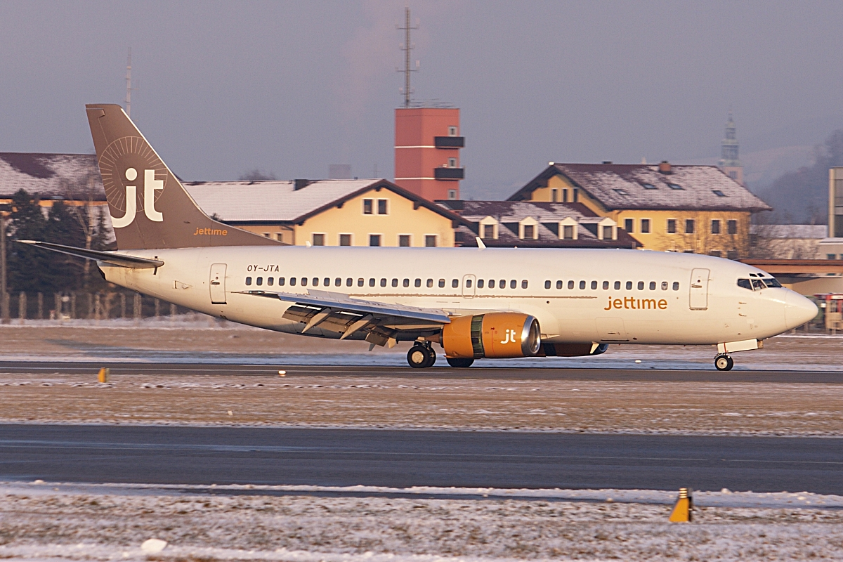 Jettime Boeing 737-300 at SZG